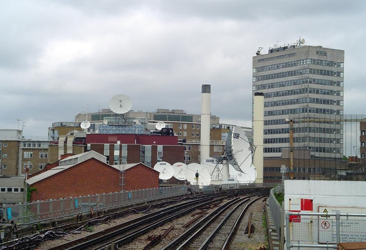 Looking North from Shepherd's Bush tube station (Hammersmith & City Line): BBC Television Centre Photo taken by Fizzerbear on 14 July 2004